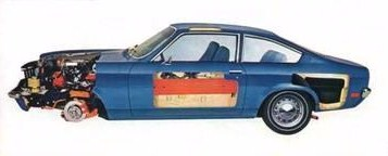 1971 Chevrolet Vega cutaway